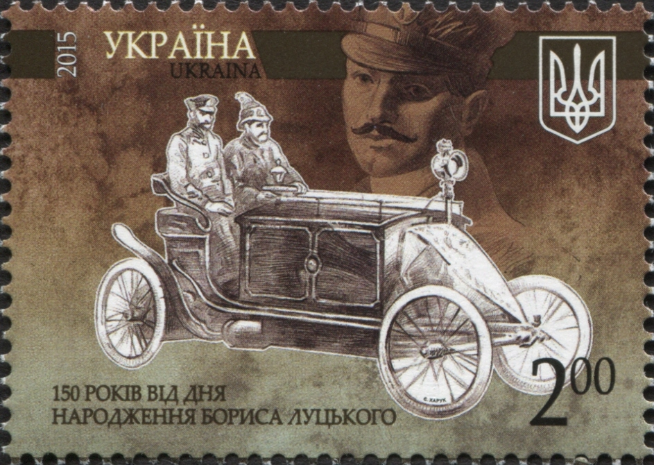 Stamp of Ukraine, 2015, featuring Russian engineer Boris Lutsky